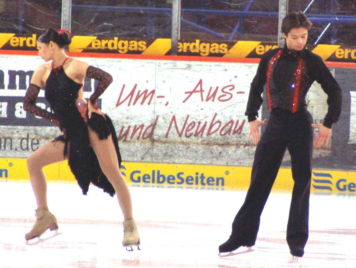 Christina and William Beier at the compulsory dances at the German championships 2006 in Berlin